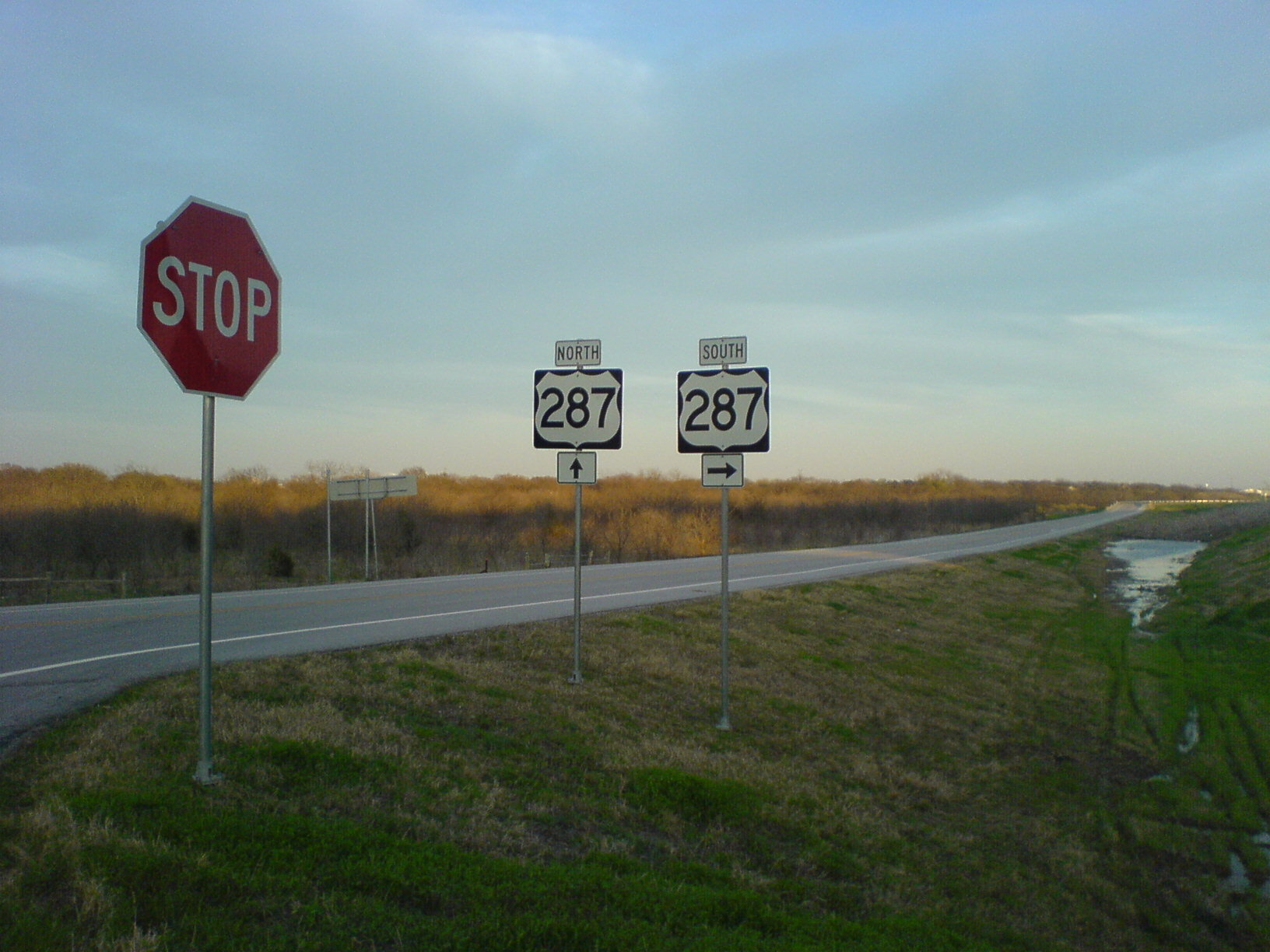 US 287 on-ramp between Midlothian and Mansfield, Texas.